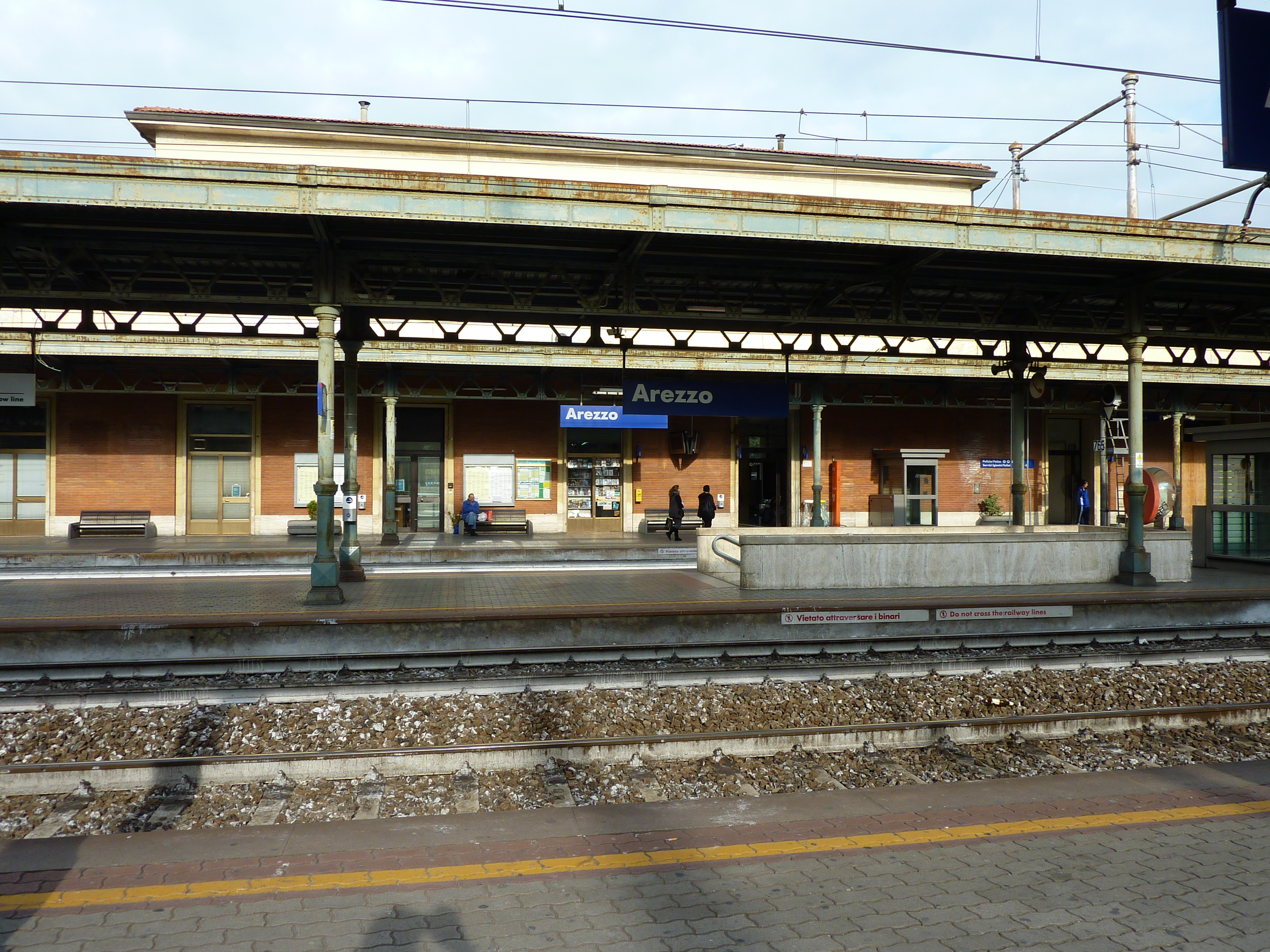 Railway station Arezzo, in Tuscany, Italy